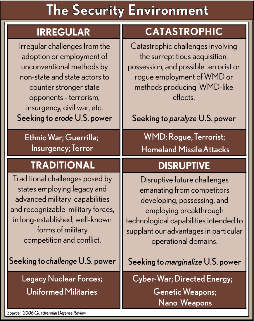 Detailed chart of threats the US Army wants to be capable of addressing, see also Image: Purpose chart of US Army Transformation.jpg